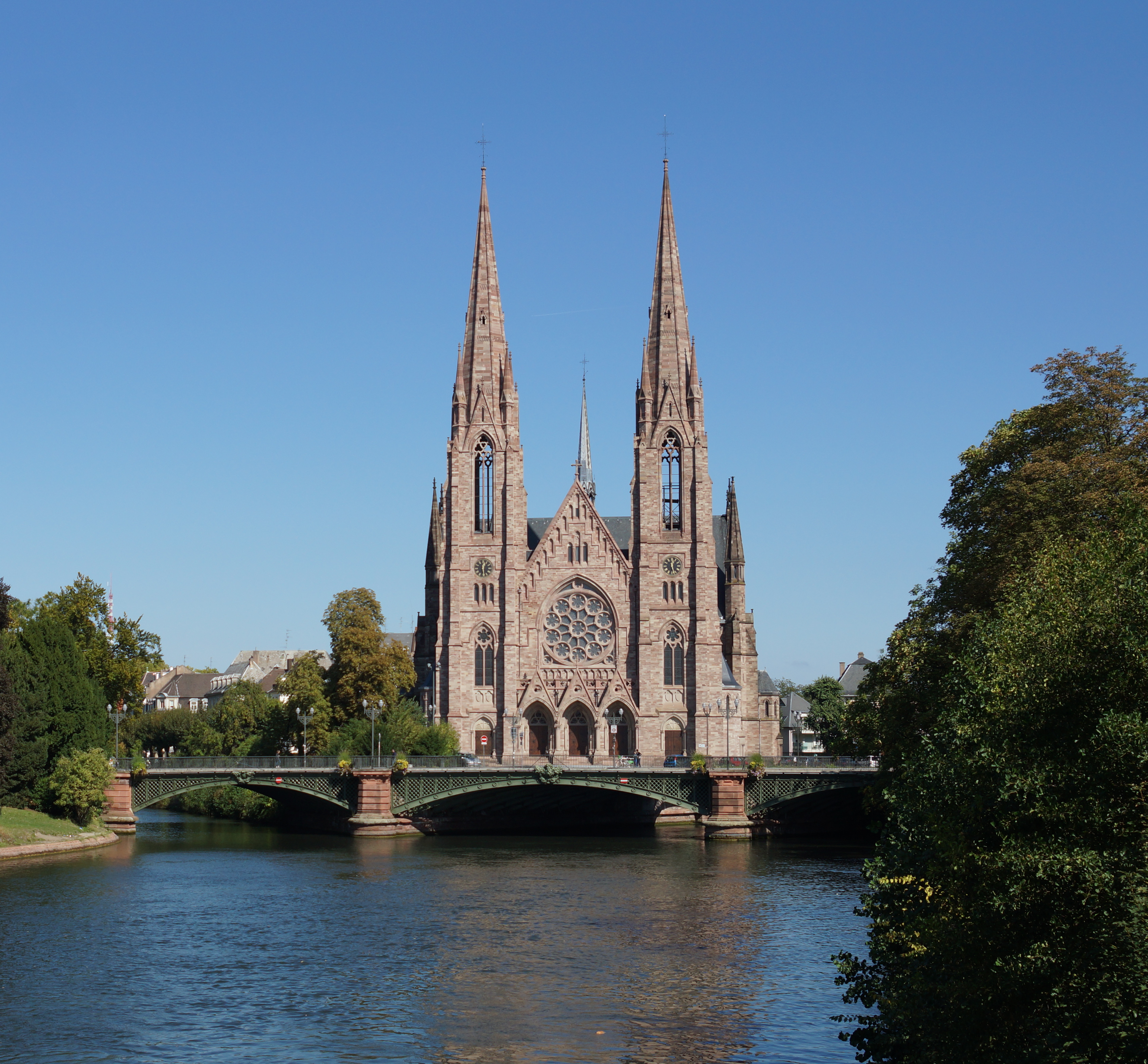 cropped version of File:Strasbourg St Paul septembre 2015.jpg